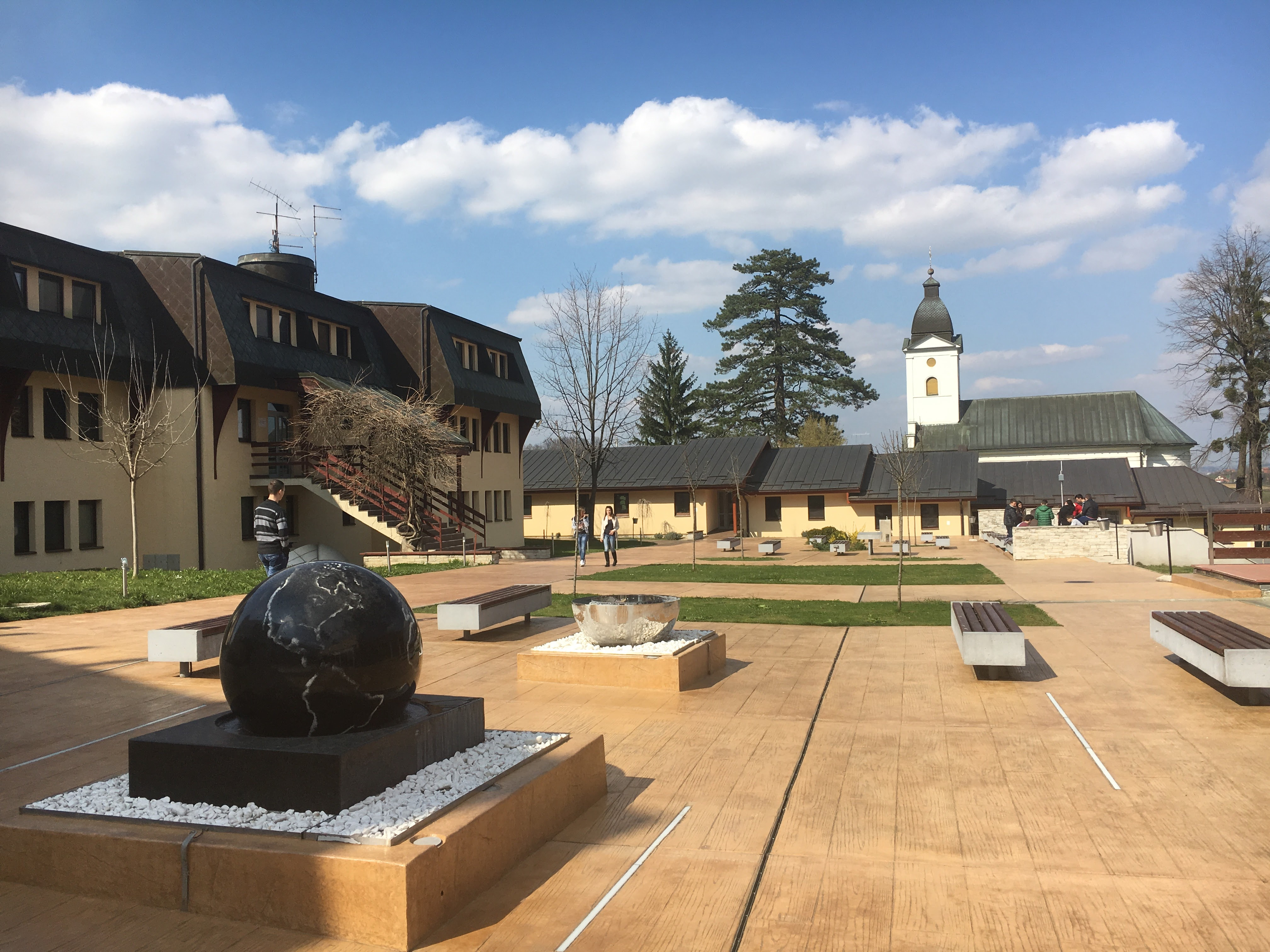 Lecture rooms are visible on the left, while the library is in front. Petnica church tower is visible in the background.